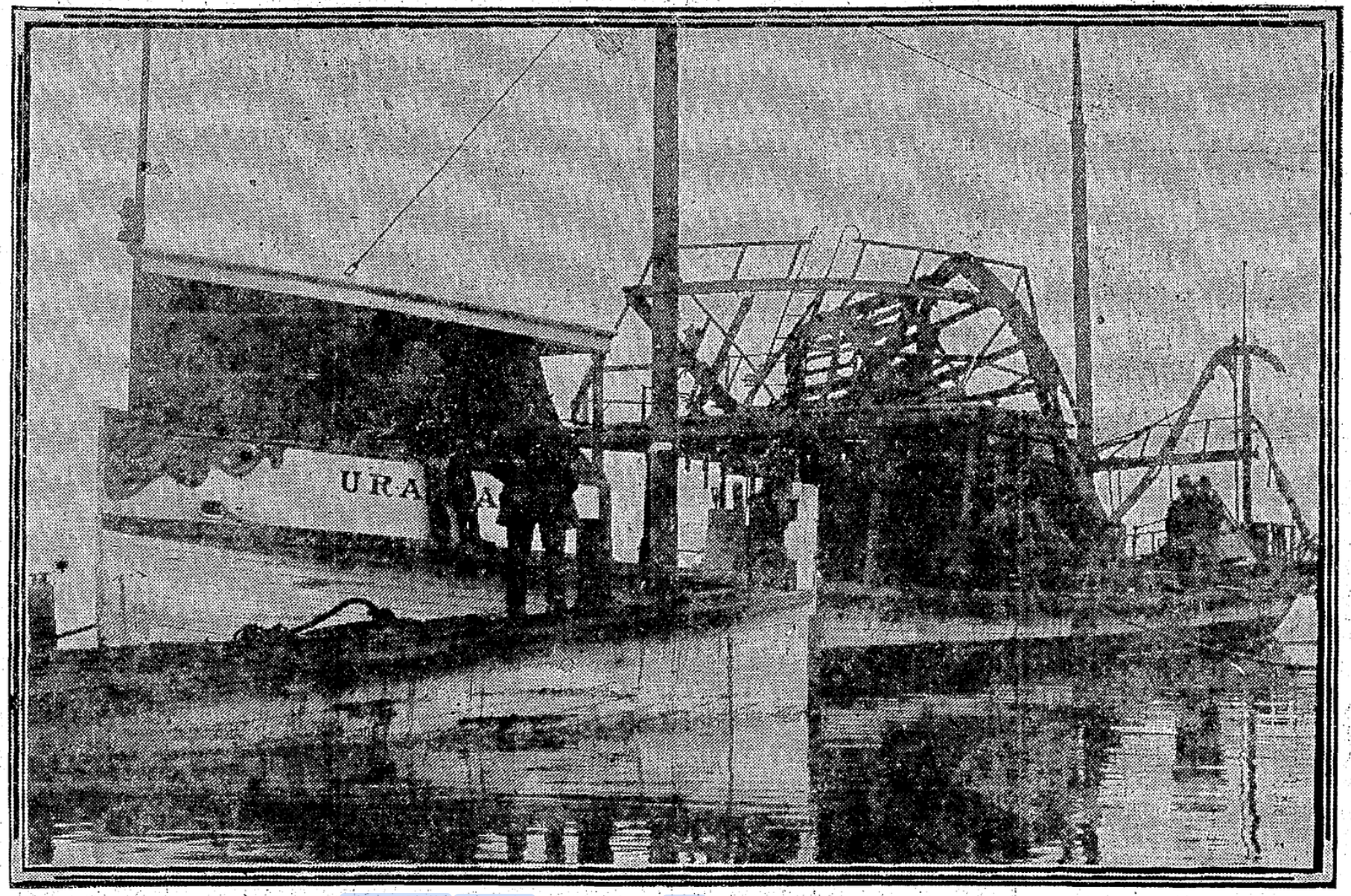 Steamboat Urania which burned at her dock in Houghton, Washington on February 12, 1914. This image was published in the Seattle Daily Times on February 13, 1914. Houghton was annexed by Kirkland, Washington in 1968.